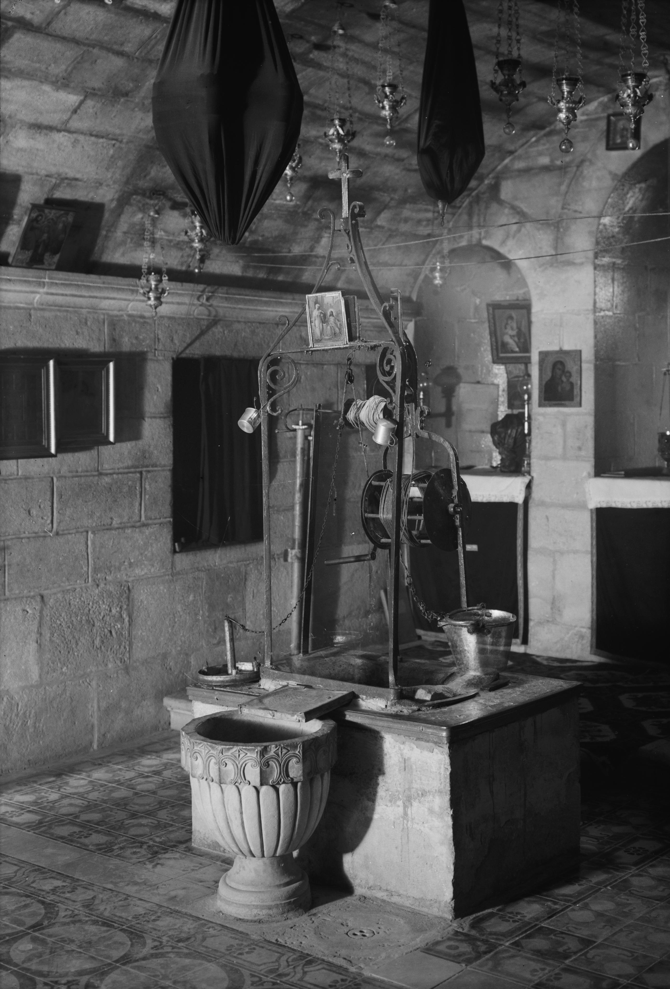 Jacob's Well after iron mounting installed, Greek Orthodox chapel